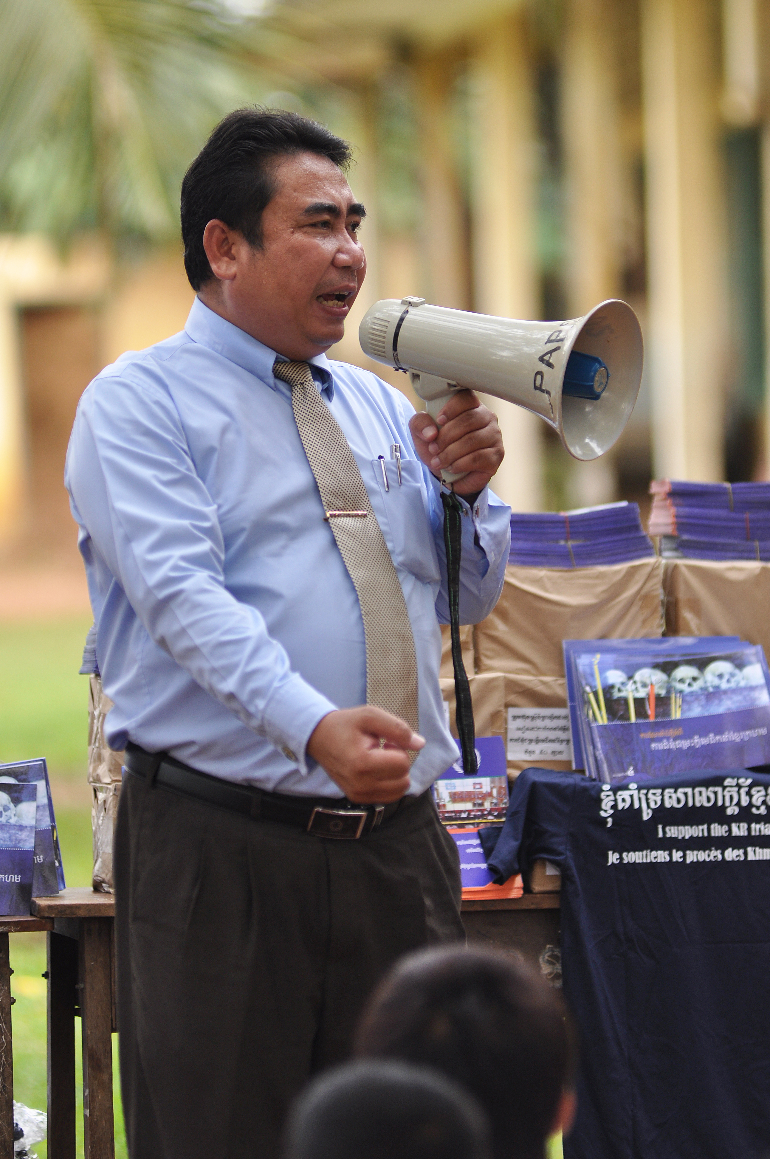 Mr. Reach Sabbath during his field work